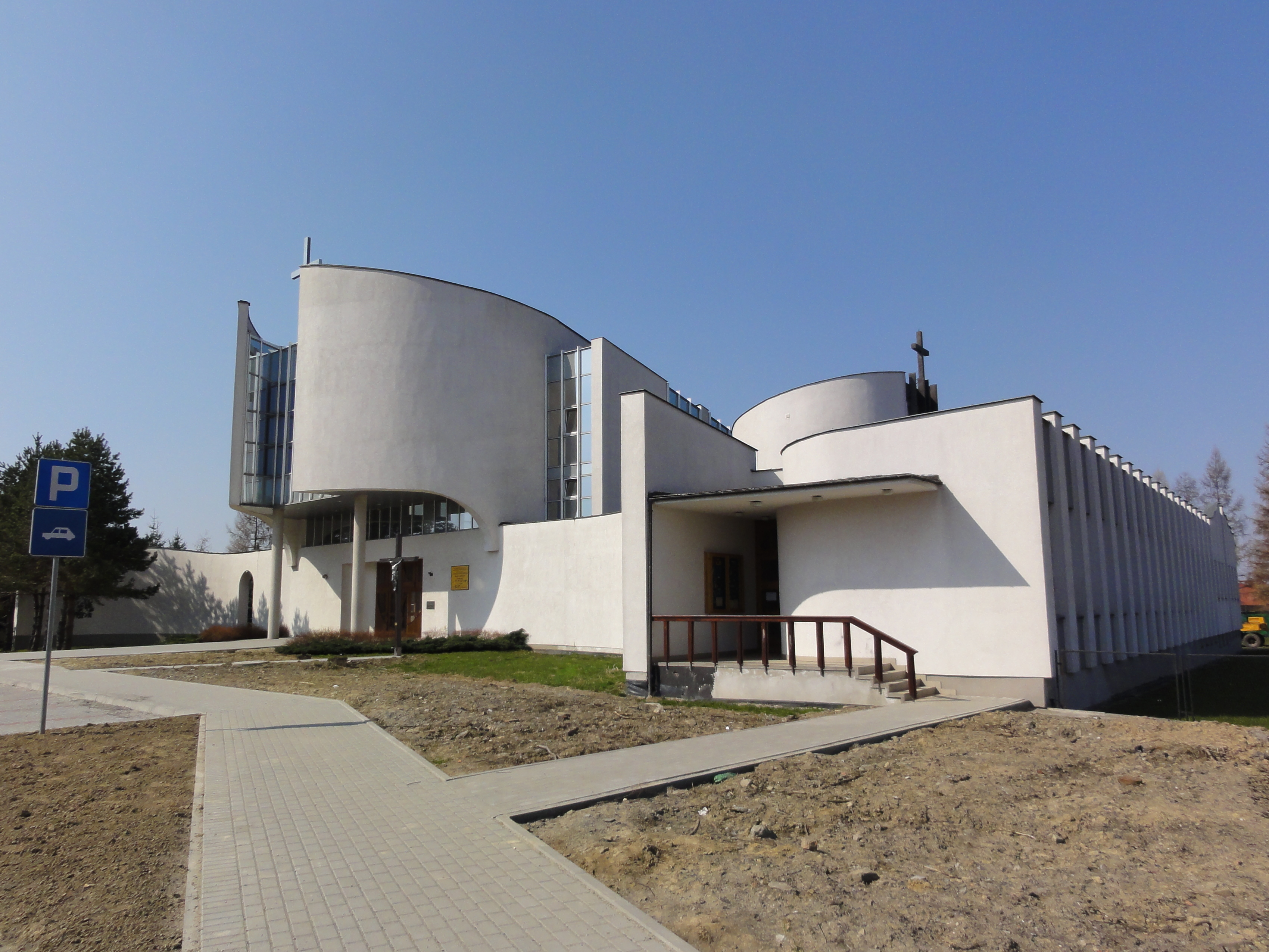 Church of Saint Mary Queen of Poland in Ustroń-Hermanice